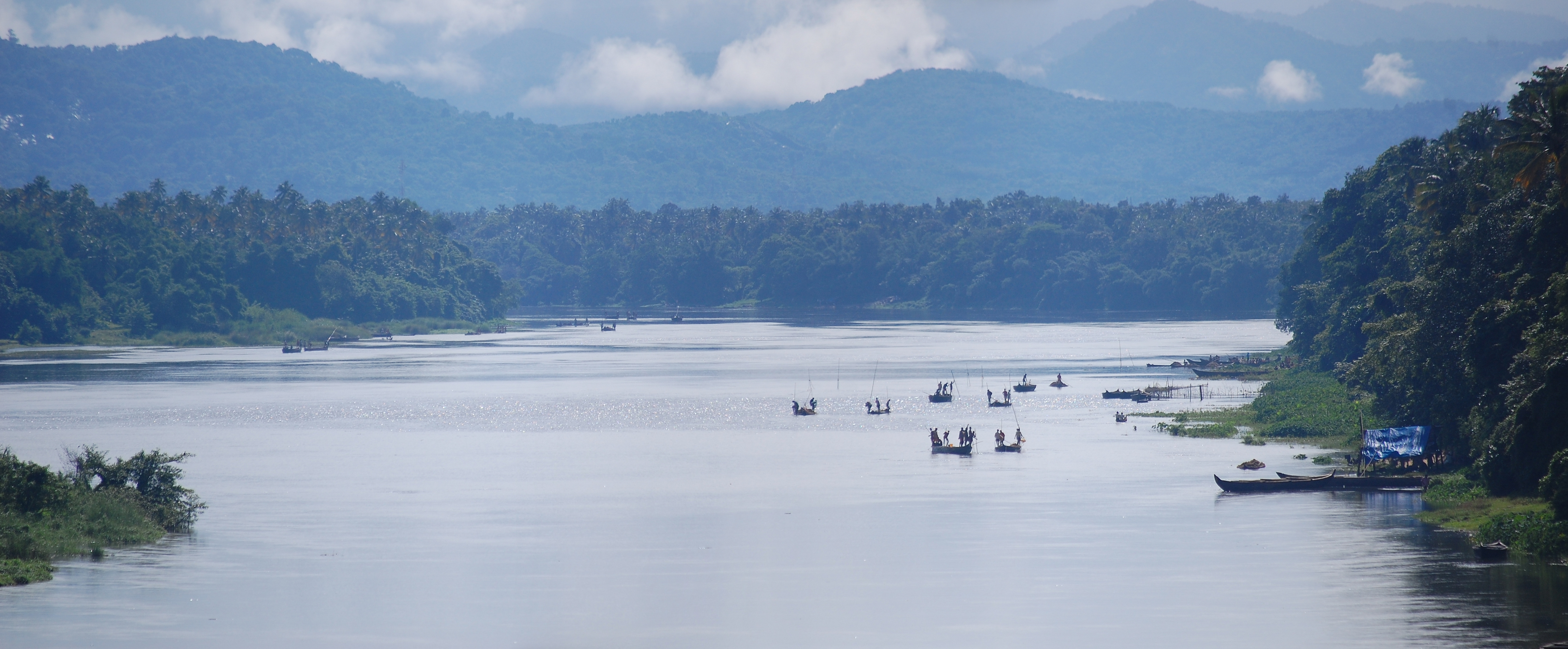 River Periyar of Kerala